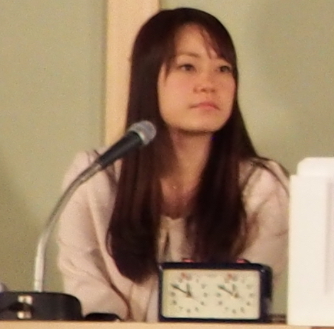 Professional shogi player 藤田綾 Aya Fujita in 2014.